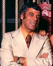 Atta Behmanesh (sport anchor), Giti (singer), and Parviz Gharib Afshar (producer) on Iranian state run TV